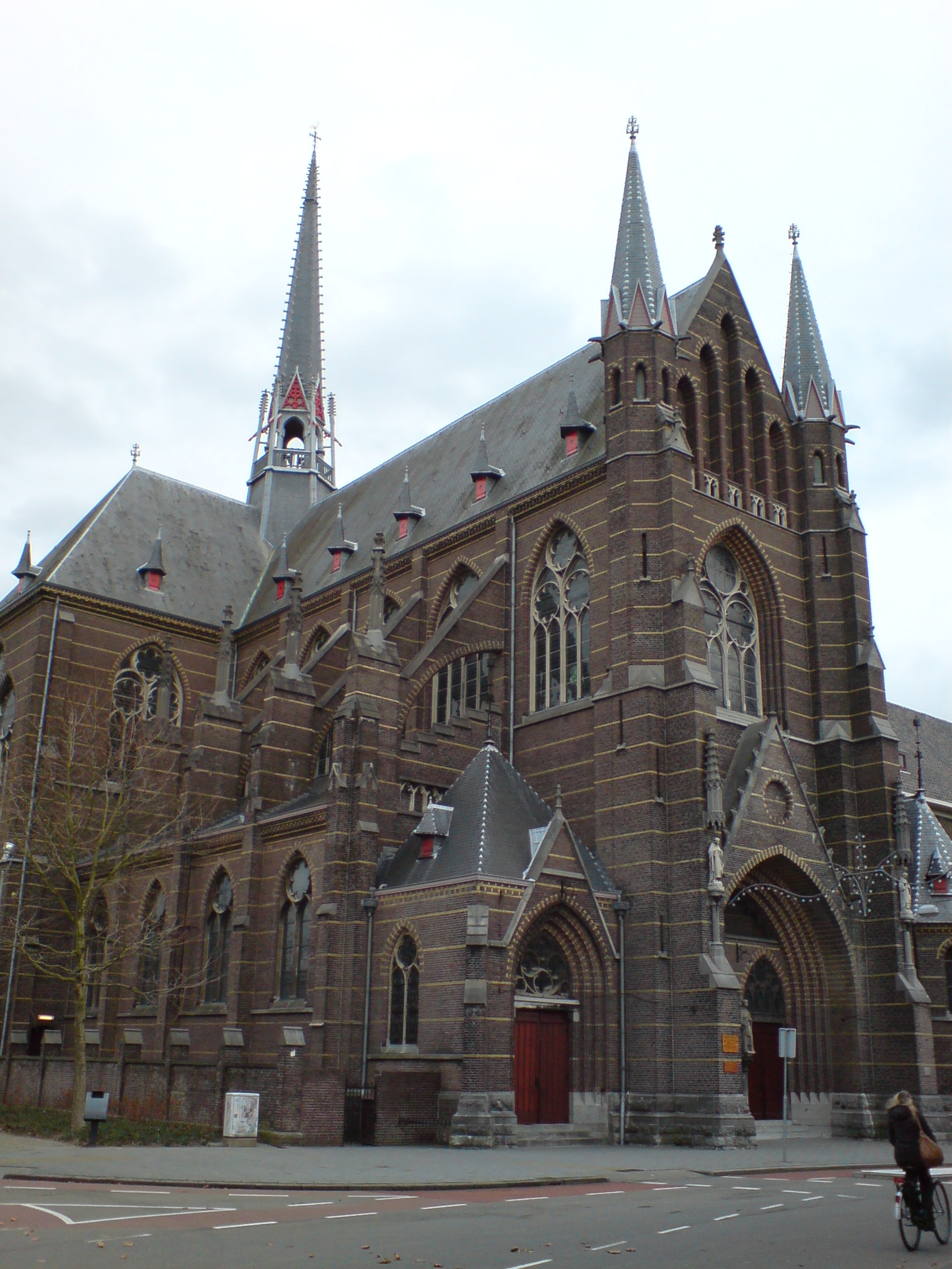 Dominicanenkerk, a religious building in Zwolle, The Netherlands